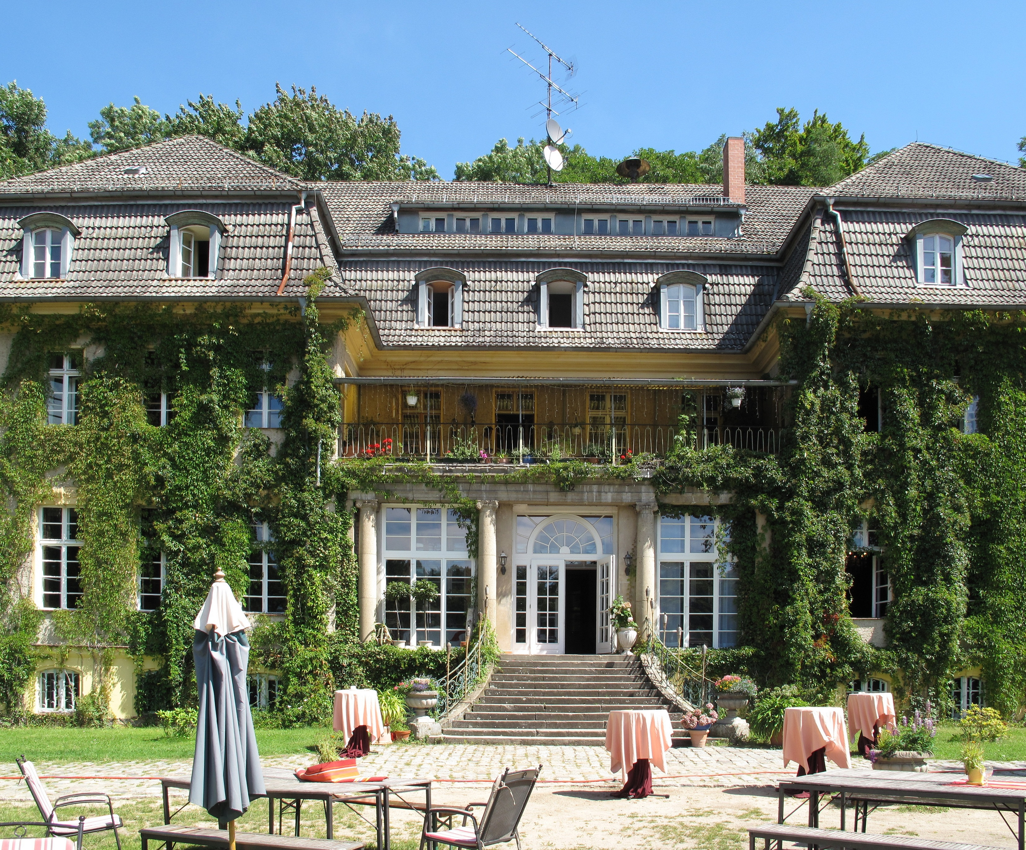 "Haus Tornow am See" (former manor house) in Tornow. Tornow is a hamlet of Pritzhagen, a village of the municipality Oberbarnim in the District Märkisch-Oderland, Brandenburg, Germany. The former demesme with a manor house from 1912 is today separated into a special education school („Schule am Tornowsee“) and a hotel with integrated work/job- and rehabilitation-training for people with mental disorders ("Haus Tornow am See"). Tornow is situated at the northern bank of the Große Tornowsee (lake).